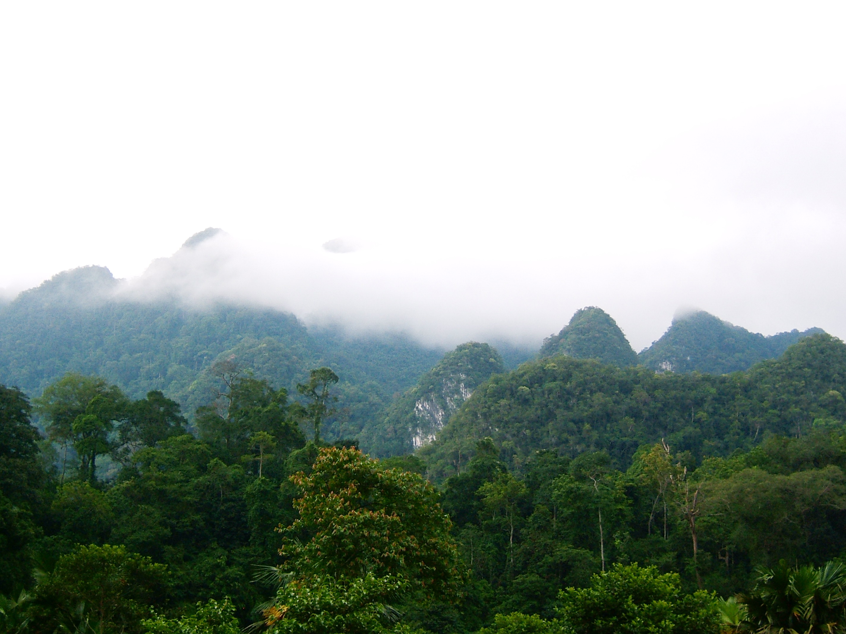 Xuon Son National Park, Vietnam